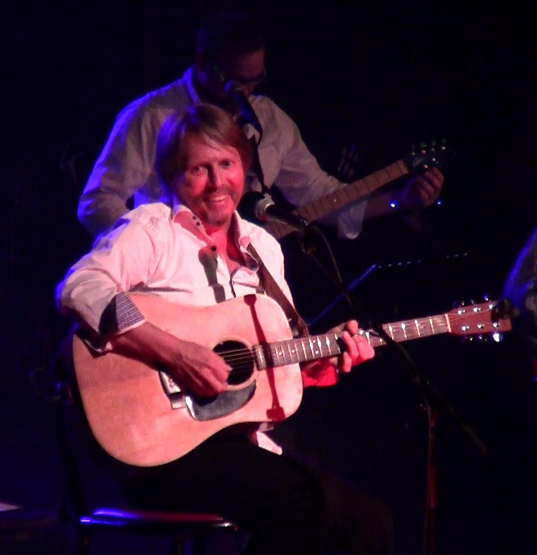 Robert Paquette, March 23rd, 2013 at the 40th edition of french music festival La Nuit sur l'étang, in Sudbury.